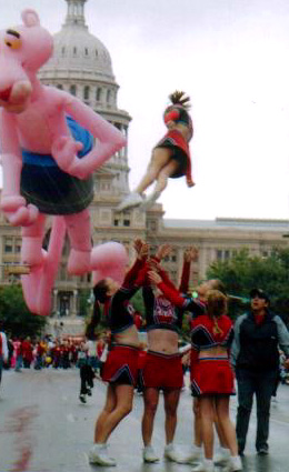 A cheerleading stunt during a parade in Austin Texas.